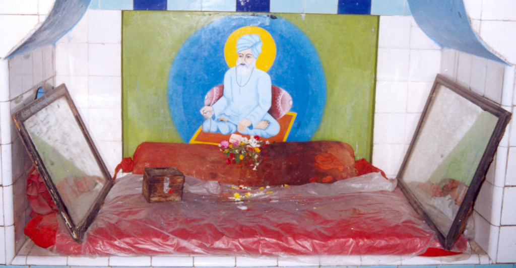 Sant Shri Sheikh Mohammad Maharaj, Patron Saint of Shrigonda